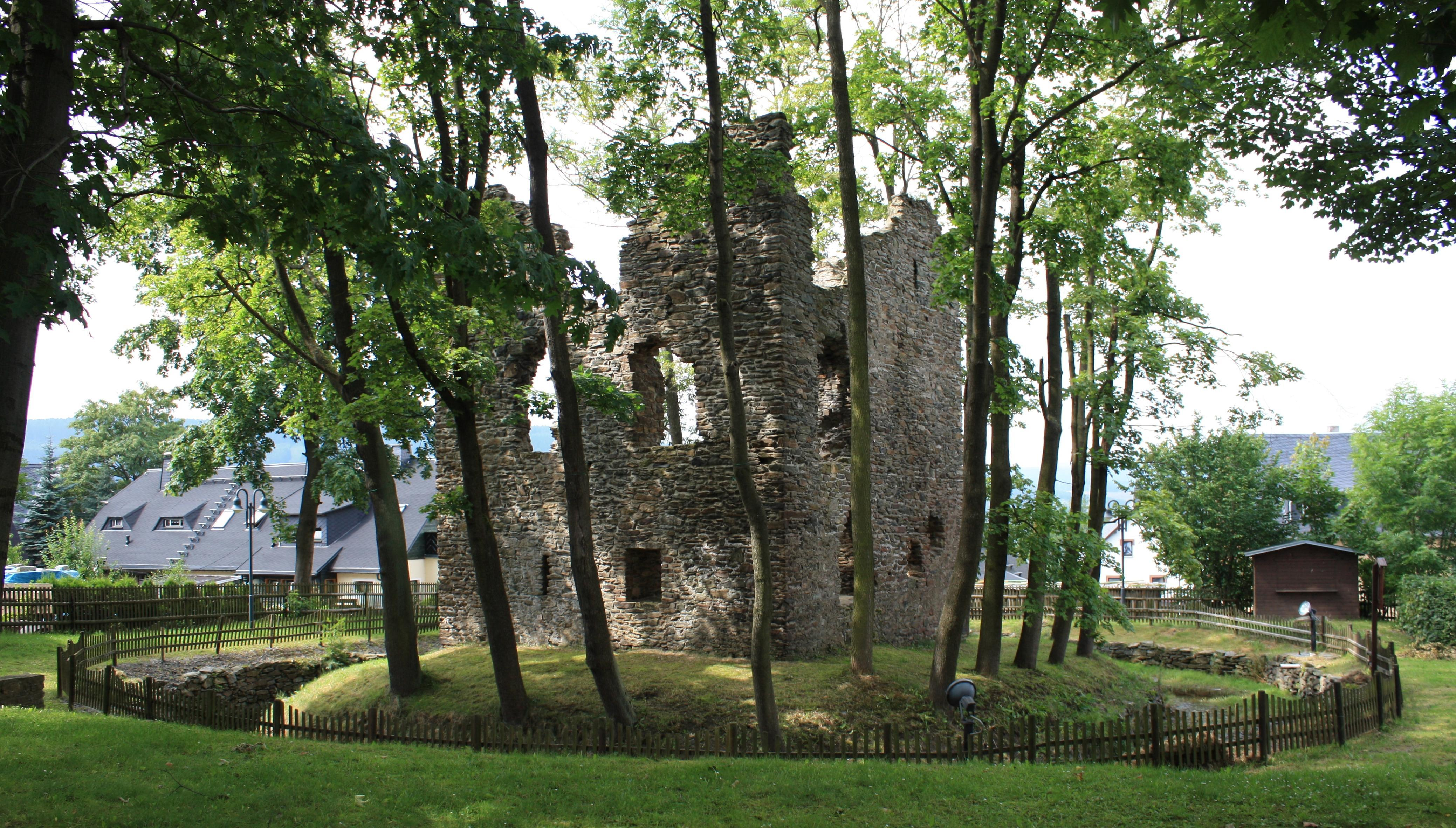 Jagdhaus Breitenbrunn, Total View from East